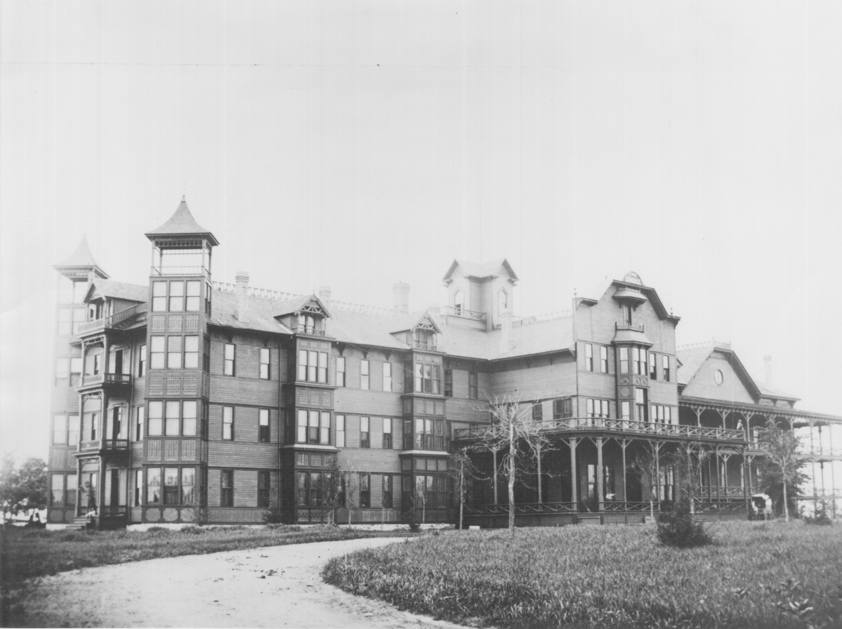 Photograph of the Lyndale Hotel in Minneapolis, Minnesota (c. 1883). About 35th St. W. and Irving Ave. S.